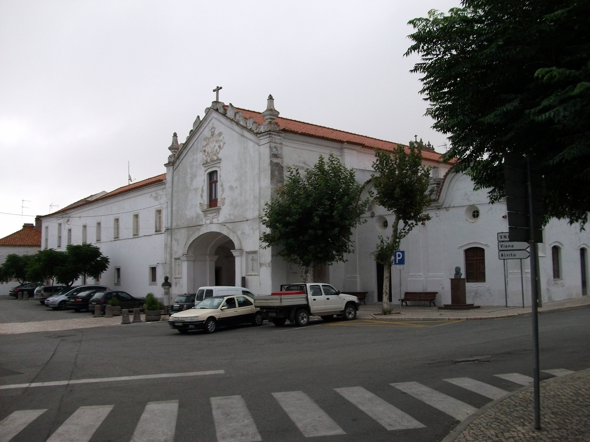 Church and Convent of San Francisco in Torrão, Alcácer do Sal, Portugal.